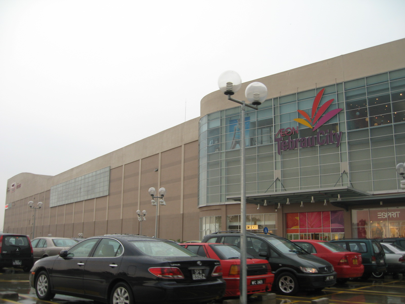 AEON Terbrau City.